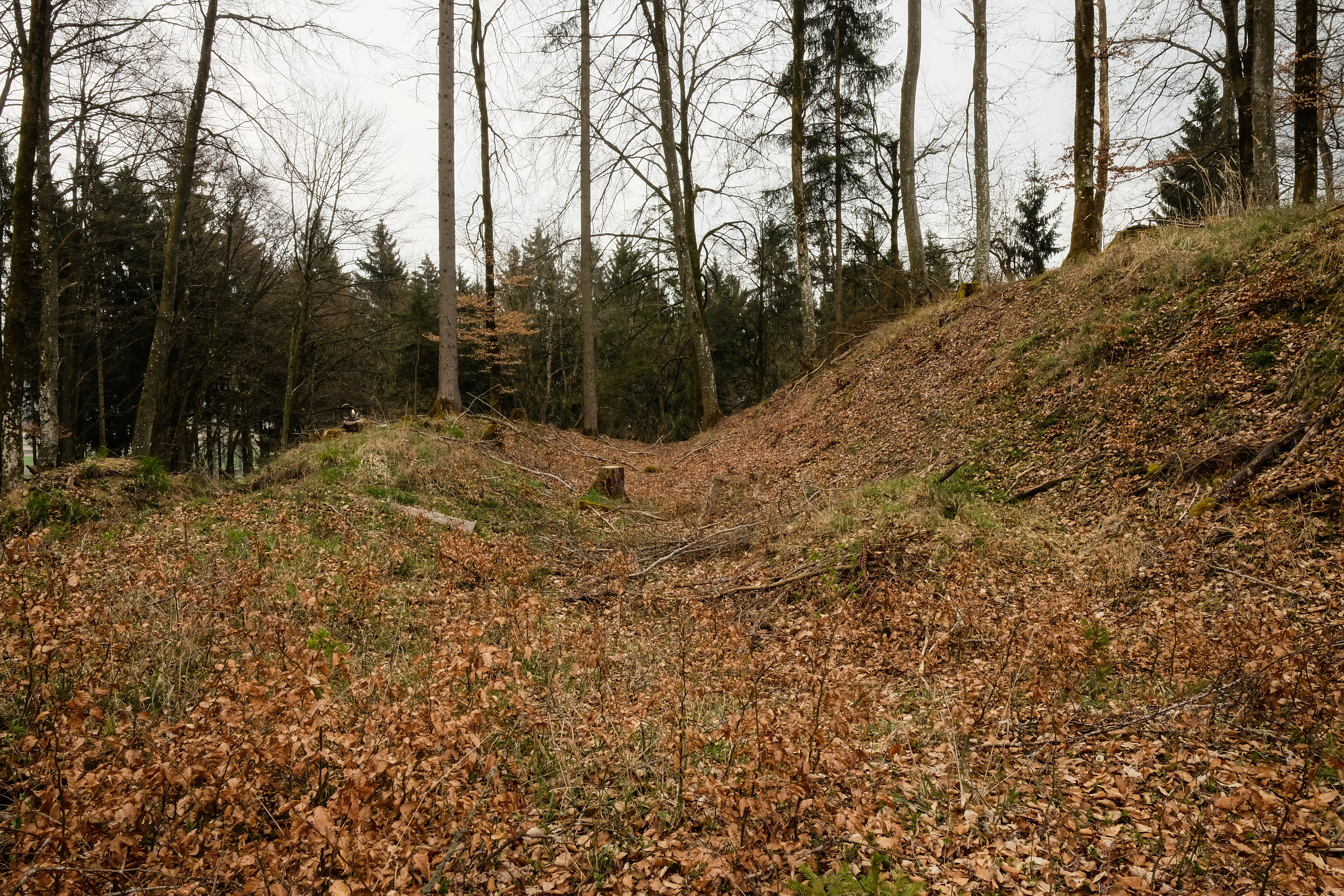 Demolished castle Hünaburg near Krauchenwies-Bittelschieß, Landkreis Sigmaringen, Baden-Württemberg, Germany